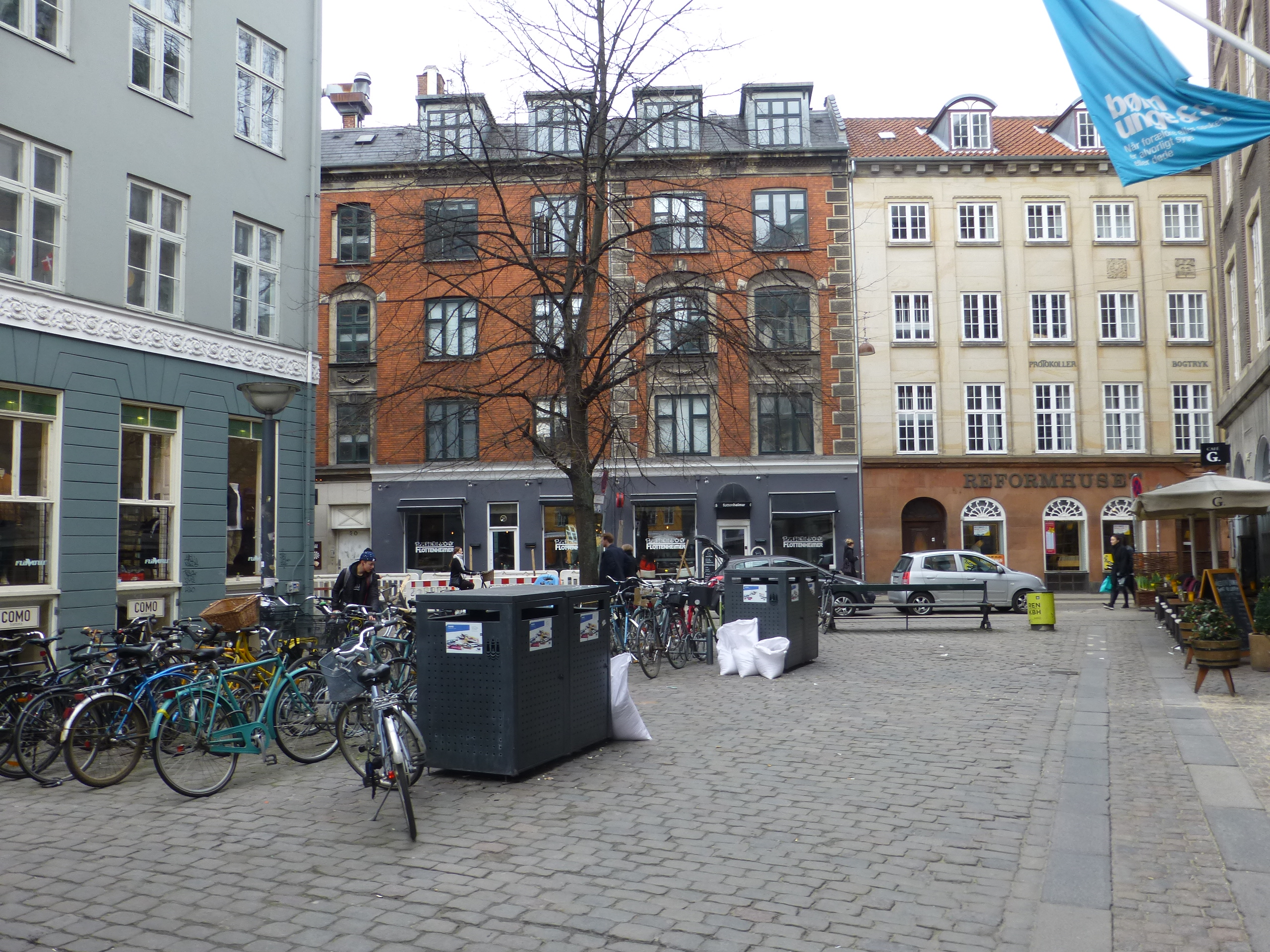 The street Kejsergade in Indre By in Copenhagen.